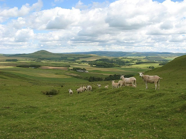 Shorn sheep on Dunsyre Hill Sheep grazing just below the top of Dunsyre Hill, on its northern side. This view looks over the West Water valley towards Mendick Hill.